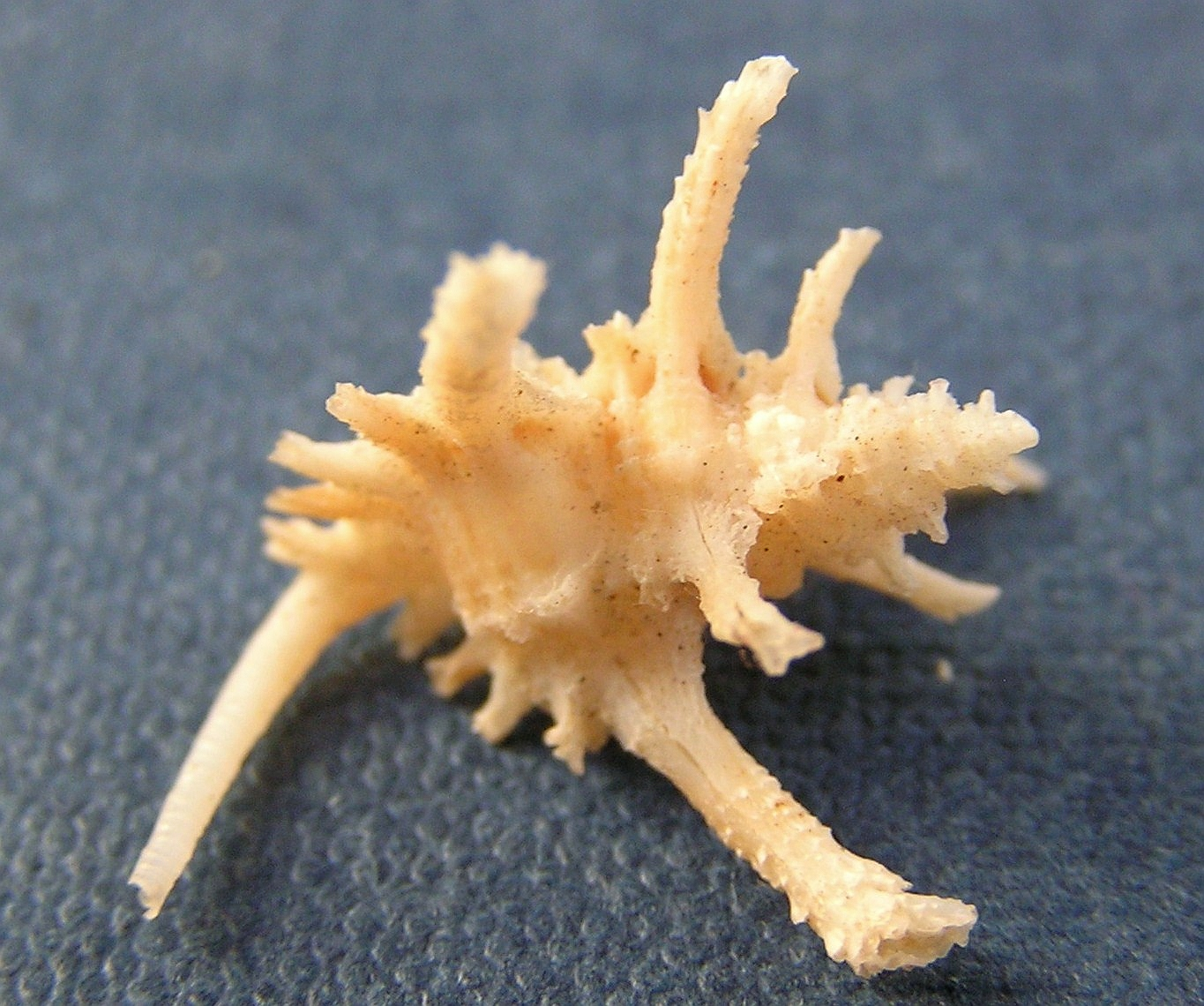 Favartia (Favartia) martini (Shikama, 1977) , a murex snail from the family Muricidae; Philippines